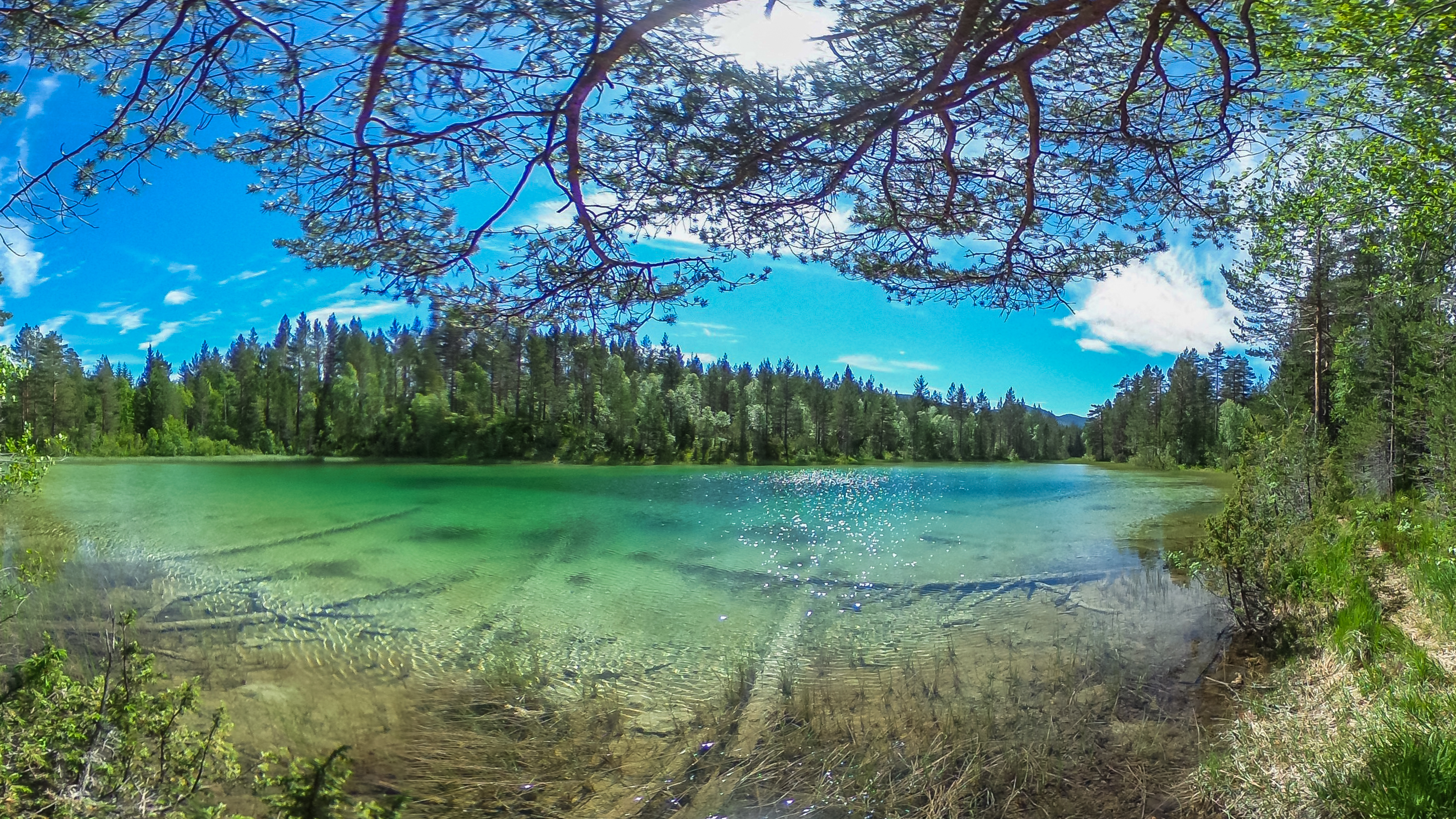 Midtre Mysutjern (part of the Mysutjernene nature reserve) is a Chara sea with very clear blue-green water over a yellow-white lime bottom.